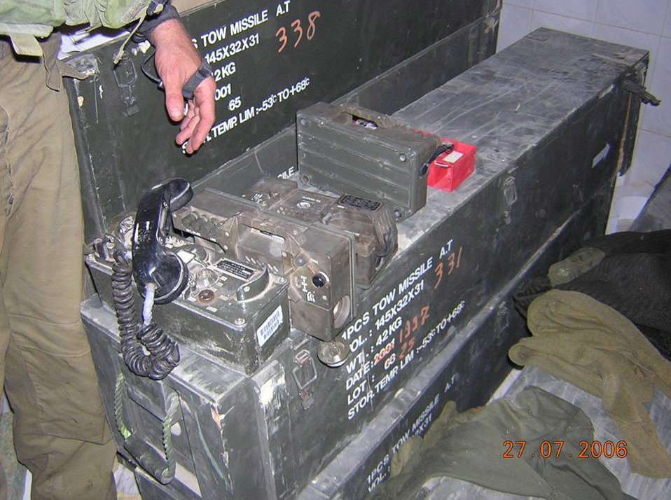 July 27, 2006 Hezbollah weaponry captured by the IDF's Golani Brigade during an operation in the Lebanese village Bint Jbeil.